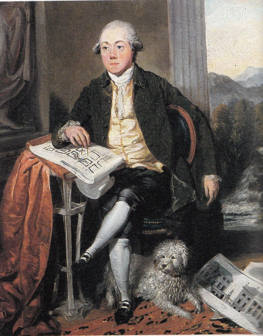 August, around what PUBLIC WORKS I see Lo! Stately streets, Lo! Squares that court the breeze See! Long canals and deepened rivers join Each part with each, and with the encircling Main The whole enlivened Isle. (lines from James Thomson's poem 'Liberty' engraved on Craig's original plan for Edinburgh's New Town) Craig's original, imaginative but impractical conception was for the street plan to resemble the Union Flag with diagonal streets radiating from the centre. This was subsequently modified in favour of three parallel main streets running in a straight line between terminating squares. In the painting he is seen with a further modification which envisaged a circus as the central focus, but this was not adopted. The plan for a canal skirted by promenades in place of the drained valley of the Nor Loch was abandoned.